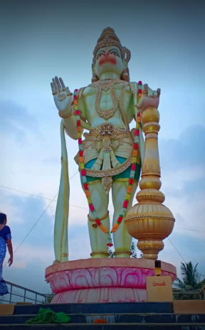 the 45 Feet tall hanuman idol near hanuman junction